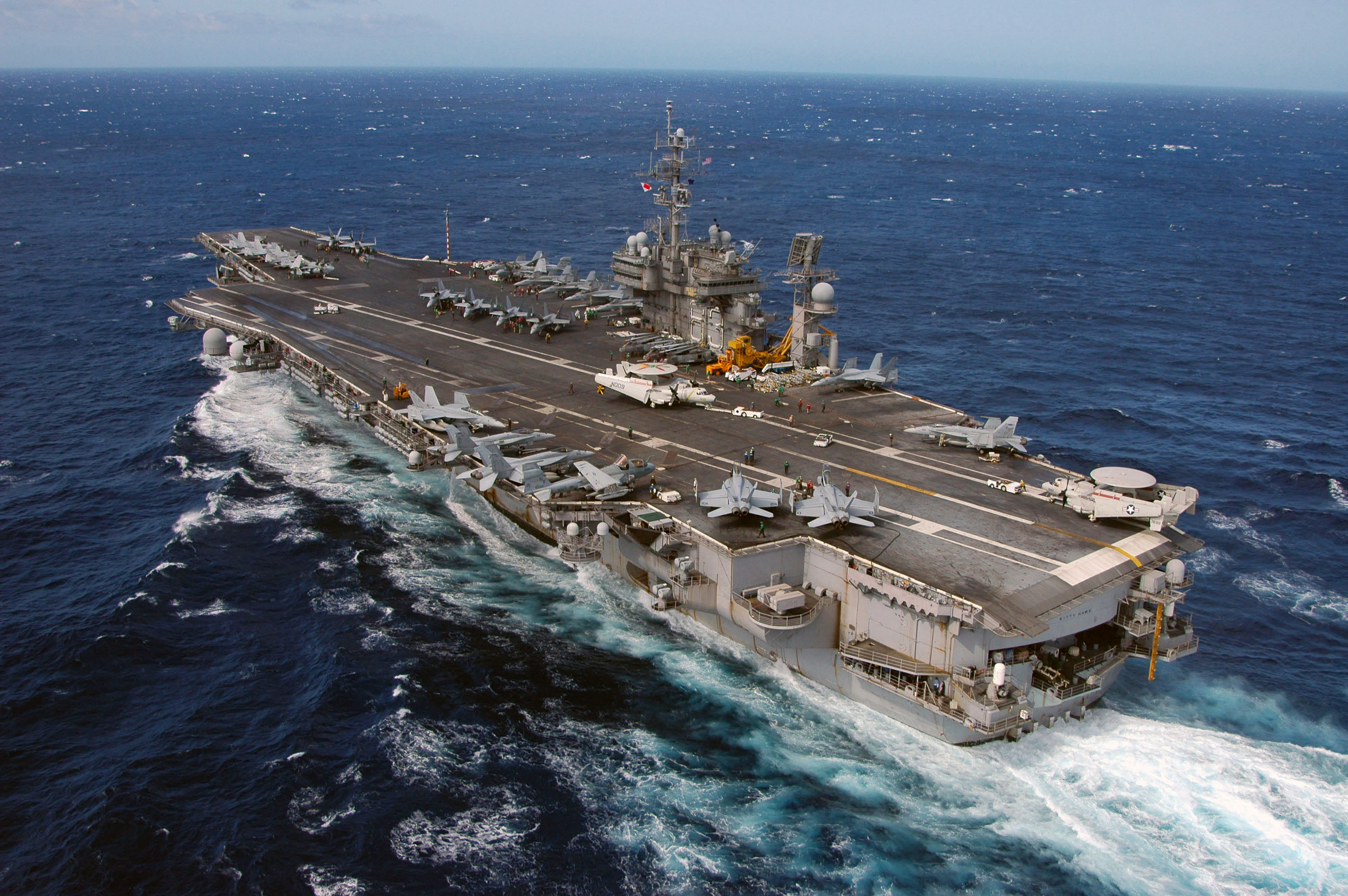 Aerial port stern view of the U.S. Navy Aircraft Carrier USS KITTY HAWK (CV 63) as it prepares to commence cyclic flight operations off the coast of Australia on Aug. 18, 2006. Currently underway in the 7th Fleet area of responsibility, KITTY HAWK demonstrates power projection and sea control as the Navy's only permanently forward-deployed aircraft carrier. (U.S. Navy photo by Mass Communication Specialist Seaman Stephen W. Rowe) (Released)